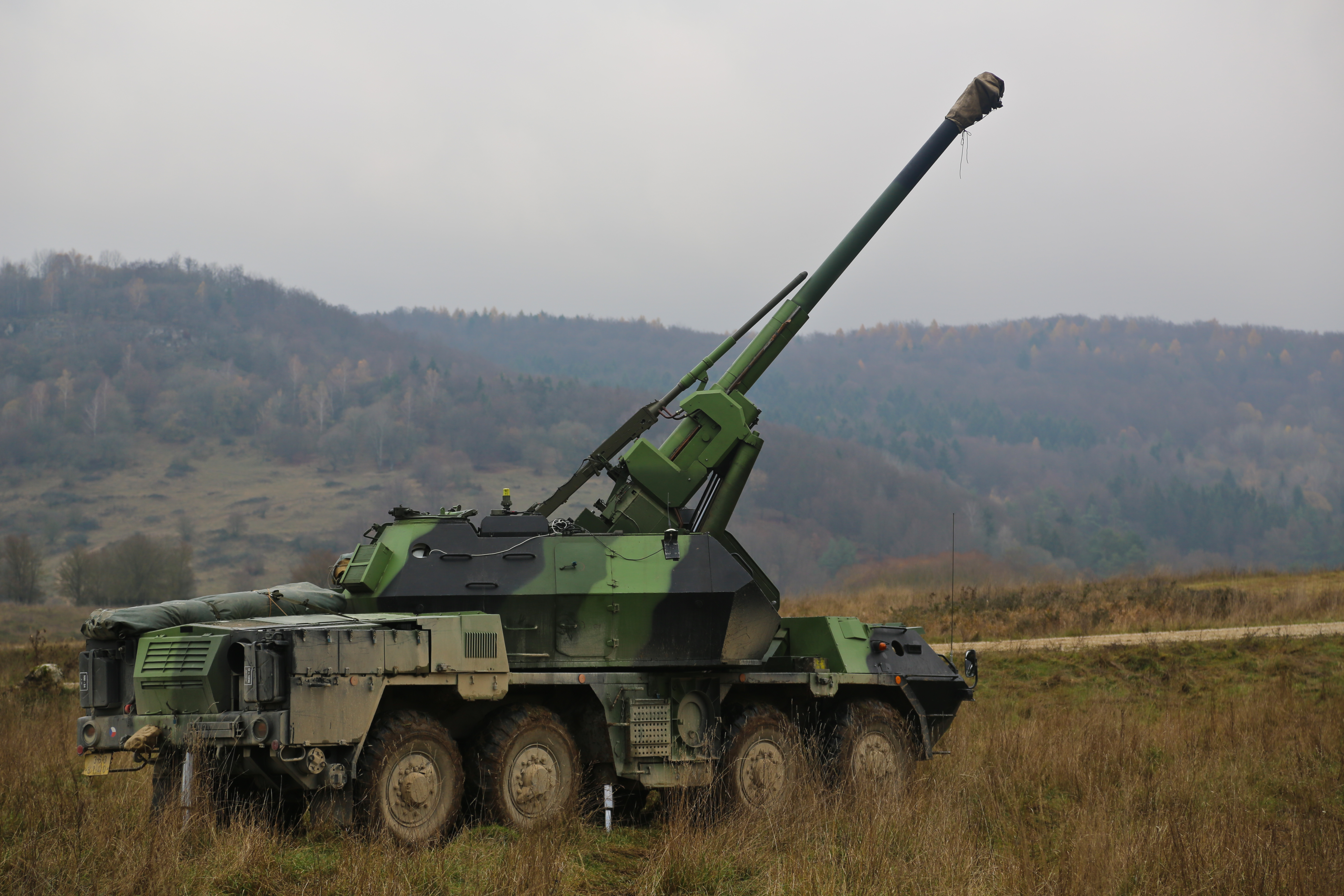 Czech Republic Army soldiers from 1st and 2nd Platoon Field Artillery maneuver a self-propelled gun-howitzer vehicle, called a DANA 152mm, into firing position while conducting simulated fire training during Combined Resolve at the Hohenfels training area at Hohenfels, Germany, Nov. 15, 2013. The exercise trains U.S. Soldiers, and multi-national brigades to defeat complex threats during coalition missions. Since the Joint Multinational Training Command’s Grafenwoehr and Hohenfels training areas are centrally located in Europe, U.S. forces, Army, Air Force, Navy, and Marine develop unique bonds with NATO, allied and multinational forces of 38 European nations. (U.S. Army photo by Spc. Derek Hamilton/Released)